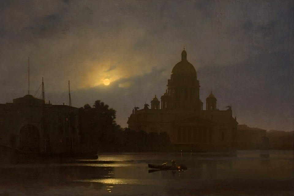 Saint Isaac's Cathedral in moonlight. Painting by Arkhip Kuindzhi